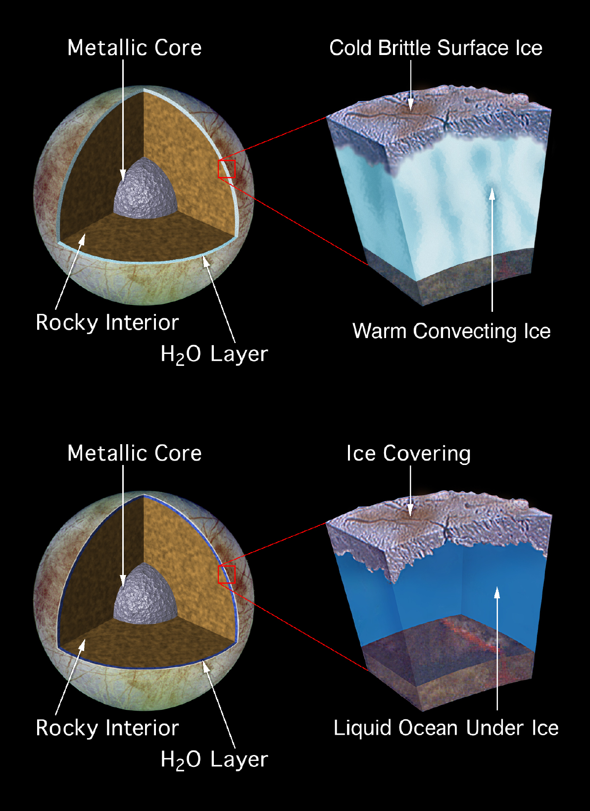 Model of Europa's subsurface structure. Original caption released with image: These artist's drawings depict two proposed models of the subsurface structure of the Jovian moon, Europa. Geologic features on the surface, imaged by the Solid State Imaging (SSI) system on NASA's Galileo spacecraft might be explained either by the existence of a warm, convecting ice layer, located several kilometers below a cold, brittle surface ice crust (top model), or by a layer of liquid water with a possible depth of more than 100 kilometers(bottom model). If a 100 kilometer (60 mile) deep ocean existed below a 15 kilometer (10 mile) thick Europan ice crust, it would be 10 times deeper than any ocean on Earth and would contain twice as much water as Earth's oceans and rivers combined. Unlike the Earth, magnesium sulfate might be a major salt component of Europa's water or ice, while the Earth's oceans are salty due to sodium chloride (common salt). While data from various instruments on the Galileo spacecraft indicate that an Europan ocean might exist, no conclusive proof has yet been found. To date Earth is the only known place in the solar system where large masses of liquid water are located close to a solid surface. Other sources are especially interesting since water is a key ingredient for the development of life as we know it.